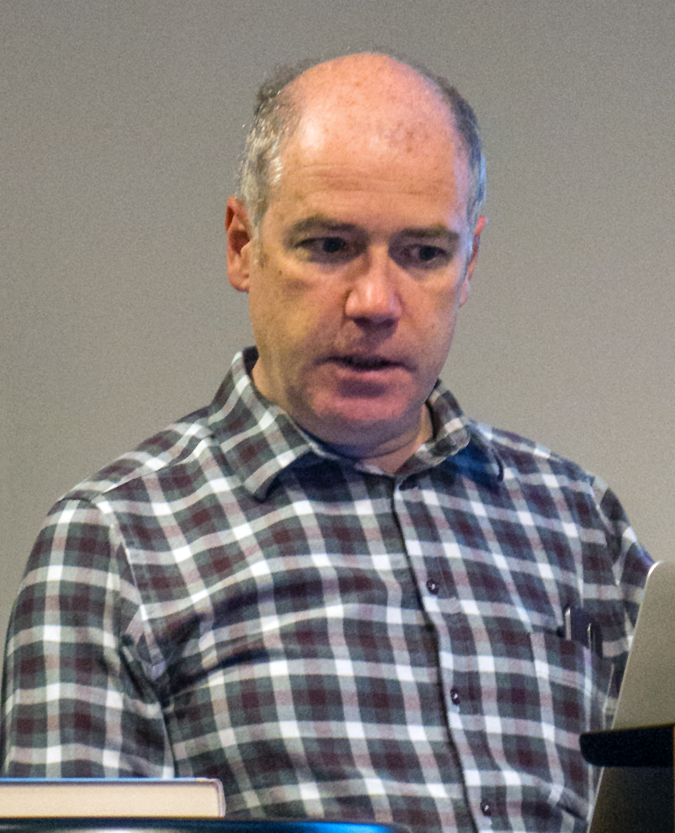 Professor Dr. Peter Gilles during a speech.